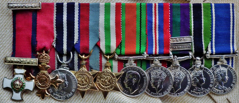 Medal bar of Captain Arthur 'Robbie' Burns DSO, OBE, QPM, CPM, Duke of Wellington's Regiment